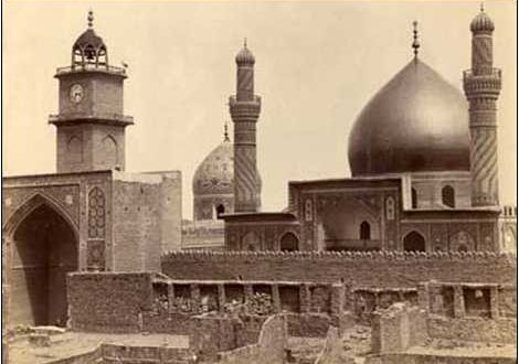 AL-ASKARIYYAIN SHRINE IN SAMARRA CITY NORTH BAGHDAD